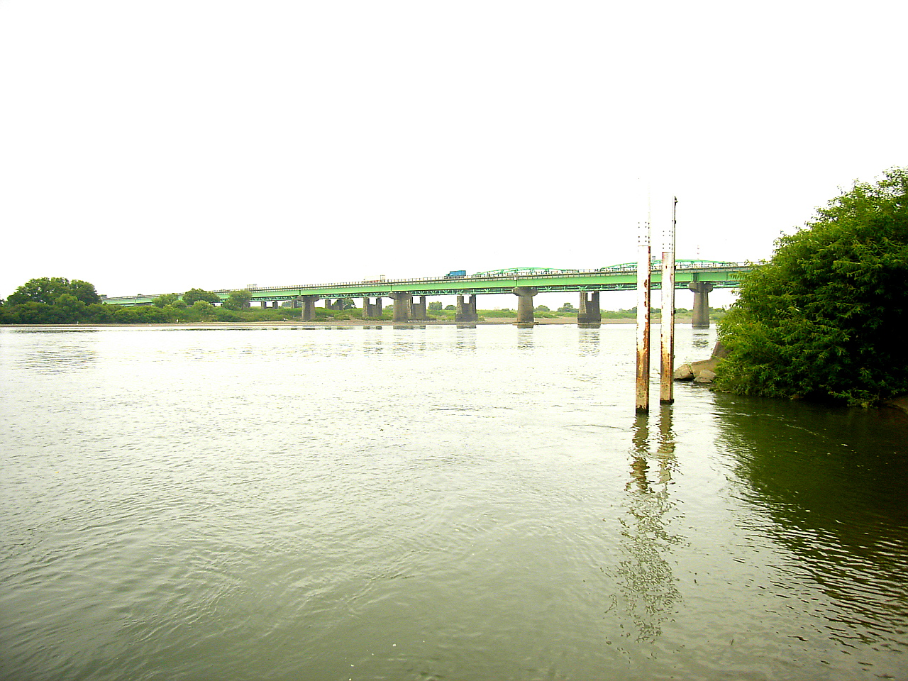 Tonegawa Bridge of the Tone River for the national highway 4 . Kurihashi, Saitama prefecture, Japan